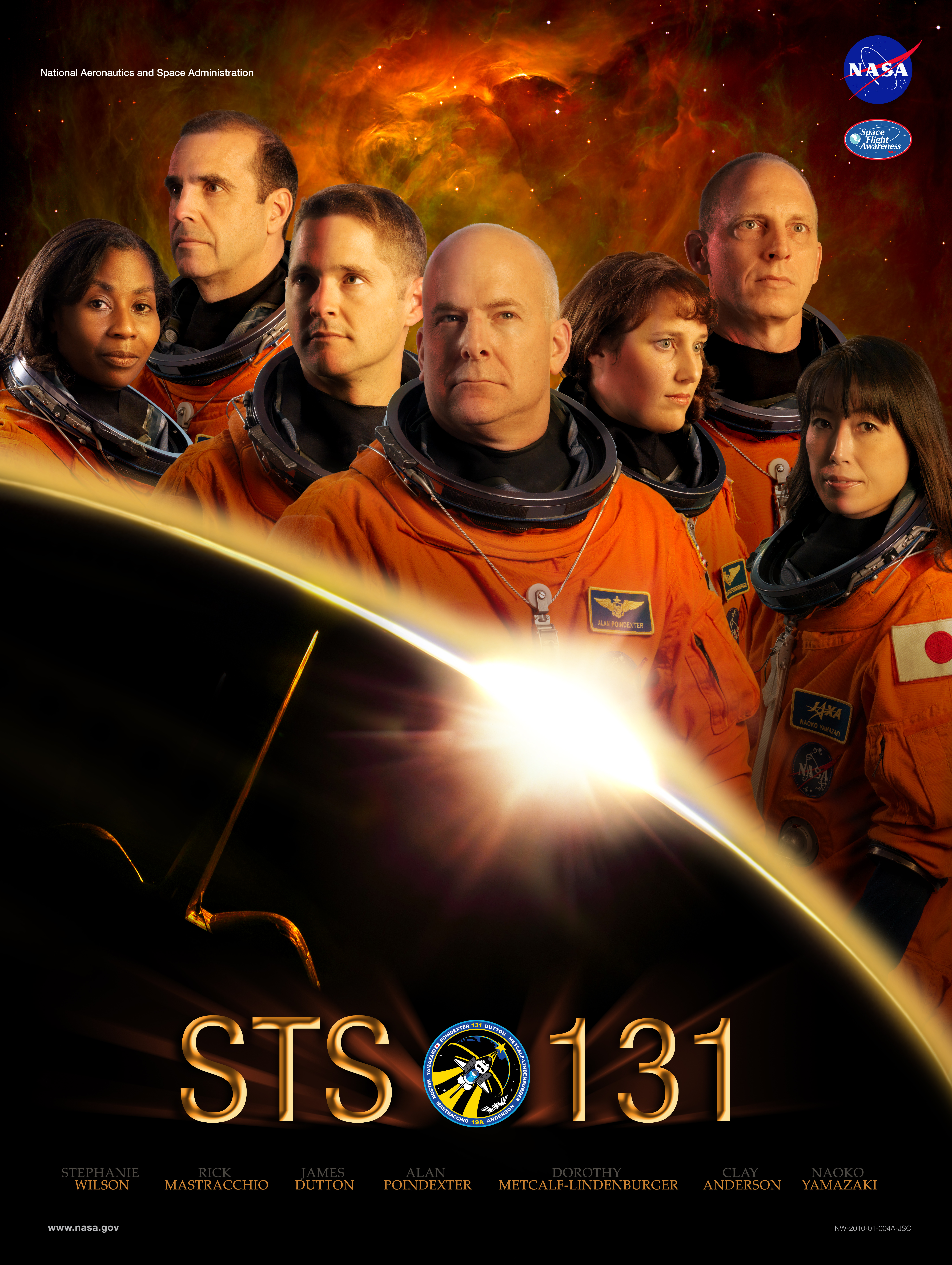 The space shuttle crew of STS-131 designed in the manner of the film poster for the 1998 film, Armageddon. Members of the crew were most likely photographed separately before a green screen and assembled, with a nebula replacing the background. The foreground is the shuttle lit by a low earth orbit sunrise, similar to the depiction on the STS-131 patch. Crew member names are listed at the bottom, and the STS-131 mission number serves as the poster "title". The official crew photo for STS-131 can be viewed here.